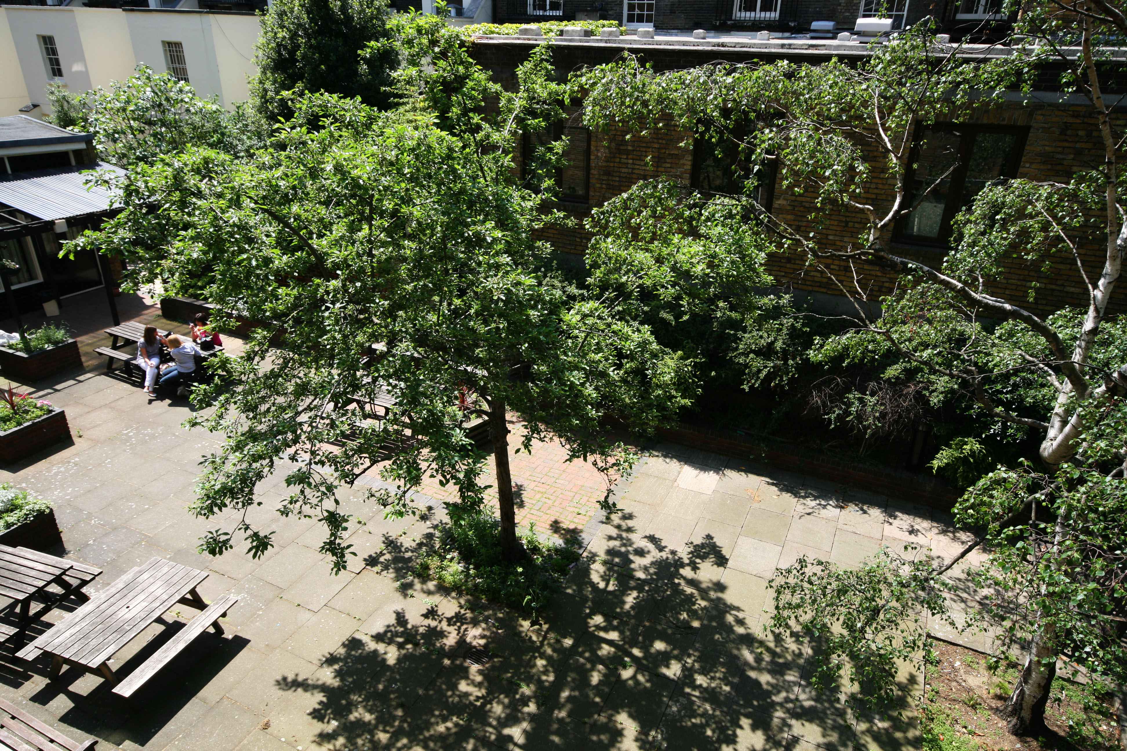 Photography by Dr A. CLark.